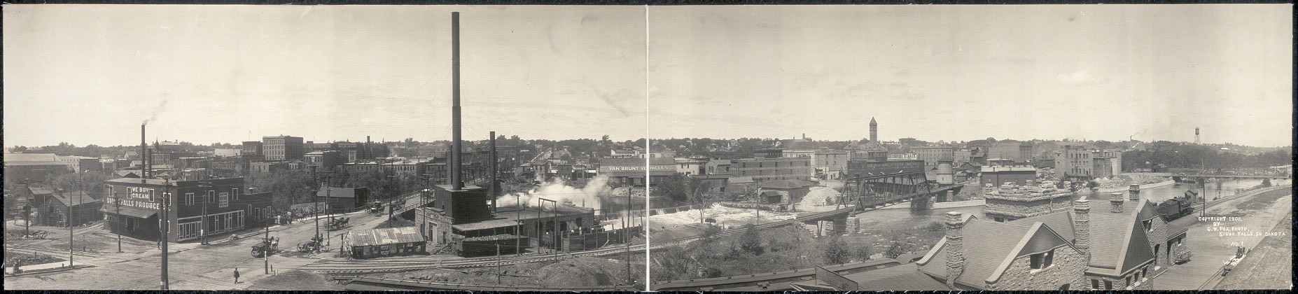 1908 Panorama of downtown Sioux Falls, South Dakota, USA. Looking west.